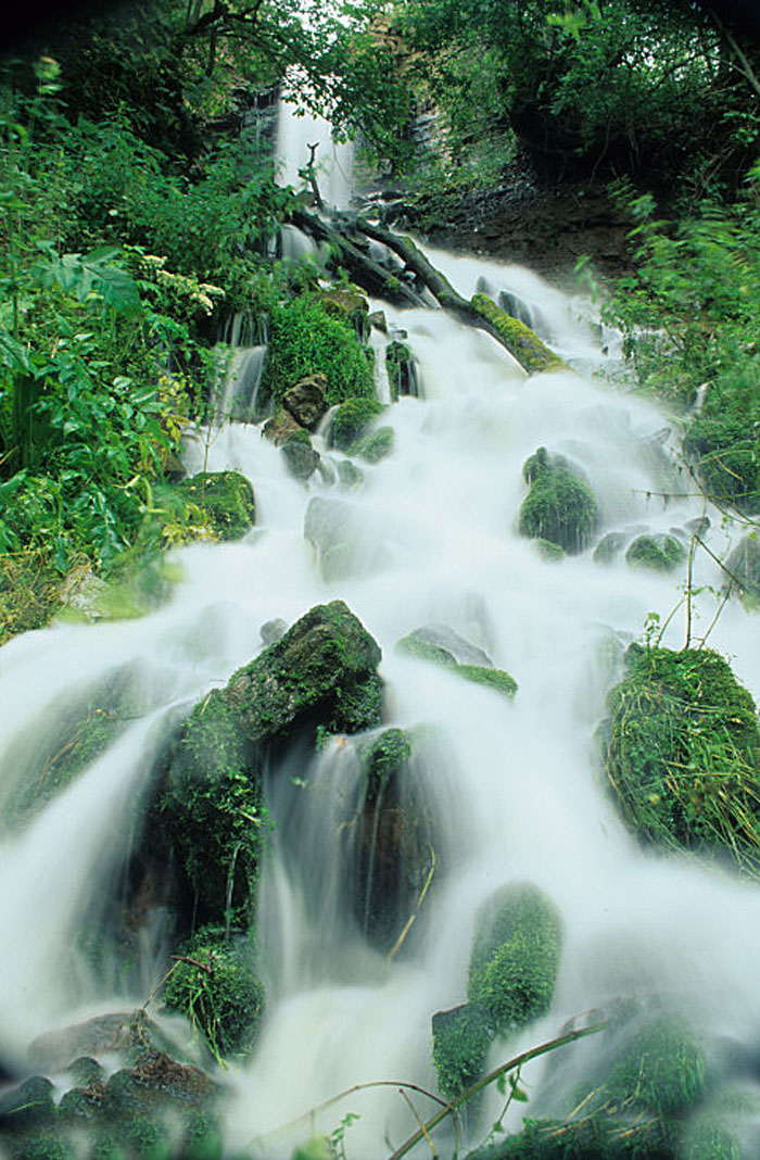 Ukuoru Waterfall